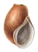 drawing of the shell of Leptoxis taeniata